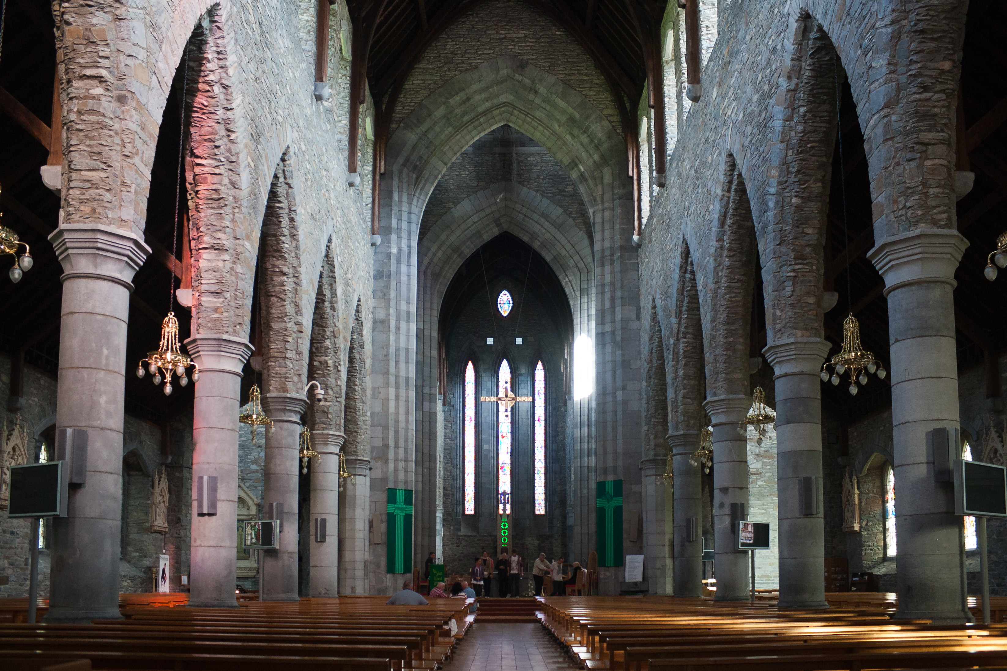 View of the nave, looking east.